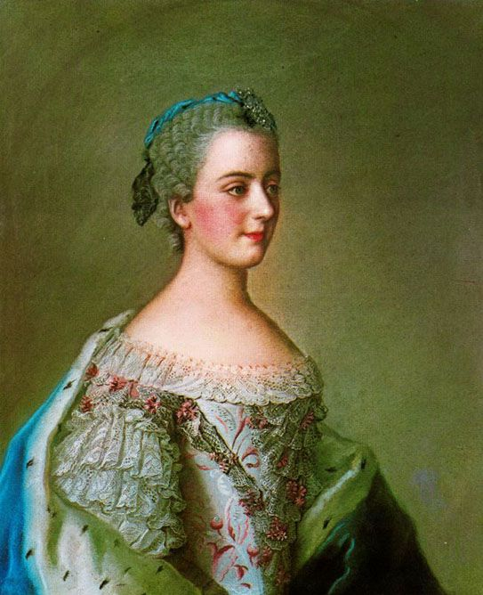 Portrait of Princess Isabella of Parma (1741-1763) or her mother Louise Élisabeth of France (1727-1759)